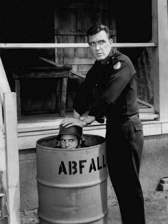 Photo of Robert Lansing as General Savage (right) and Don Penny from the television program Twelve O'Clock High.